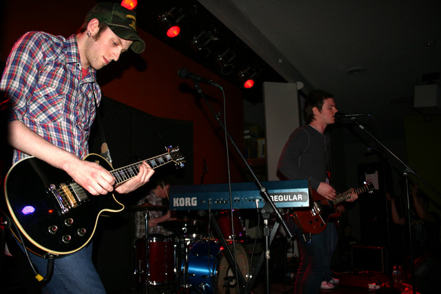 The Divorce Taken by Katie Redfield on May 12th, 2007 in Renton, Washington.